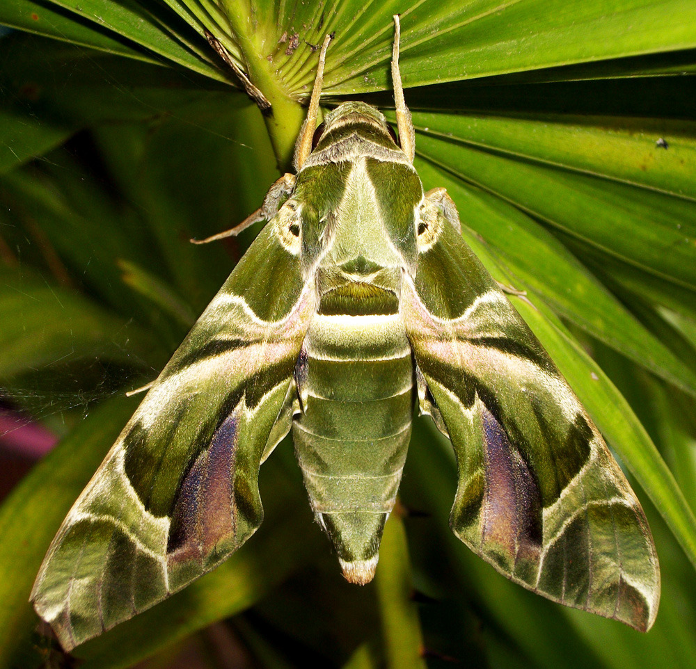 Oleander Hawk-moth Daphnis nerii female in Mangaon, Maharashtra.